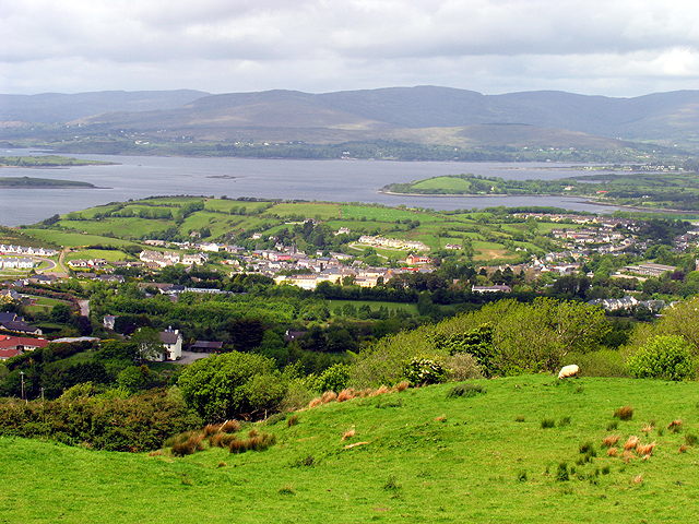 Bantry from afar. This view was taken from the viewpoint outside the town. It looks north west towards the town. The pink building off centre to the left is next to the church in the town square. The harbour is left and south of that, not visible in the picture due to the hill.